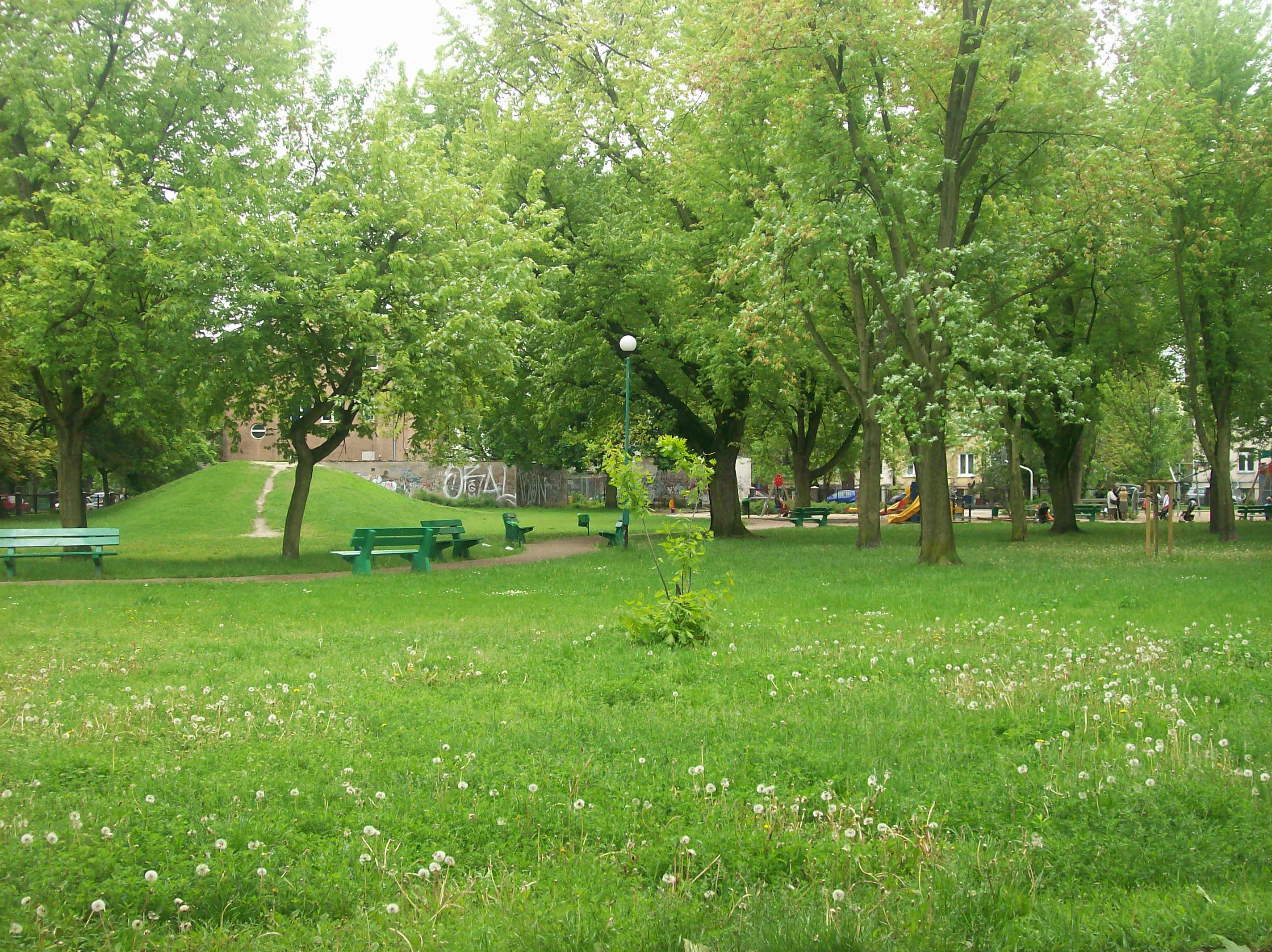 Niegolewski Square in Warsaw